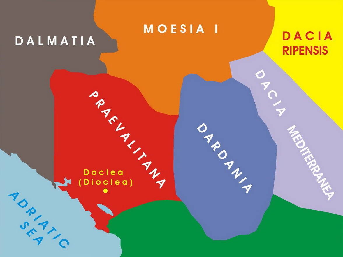 Province in the central Balkans in the Late Roman Empire.